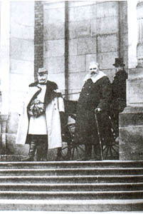 The German Emperor Wilhelm II. with Guido Henckel von Donnersmarck in Świerklaniec. He was often guest of the count.